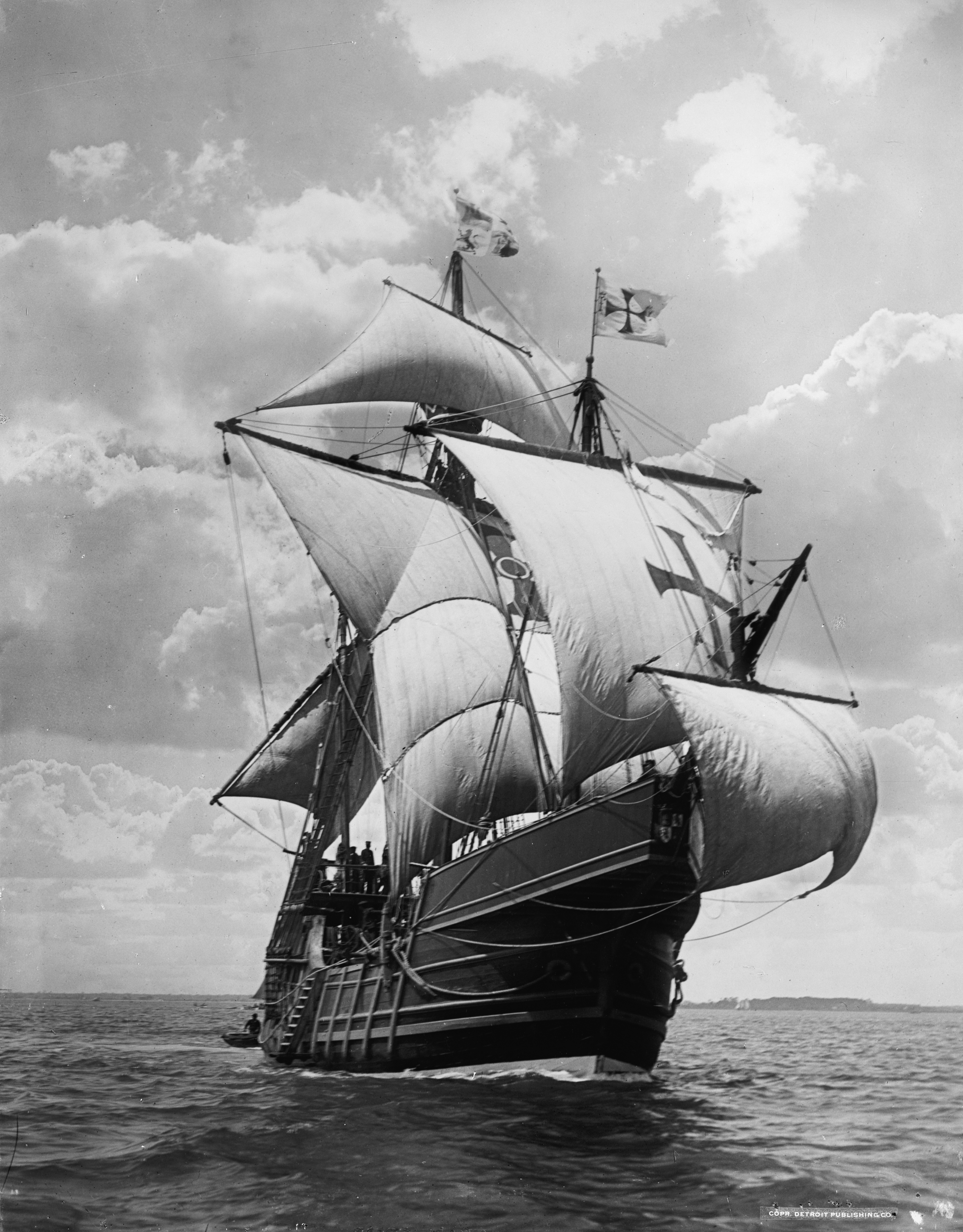 Spanish carrack Santa Maria